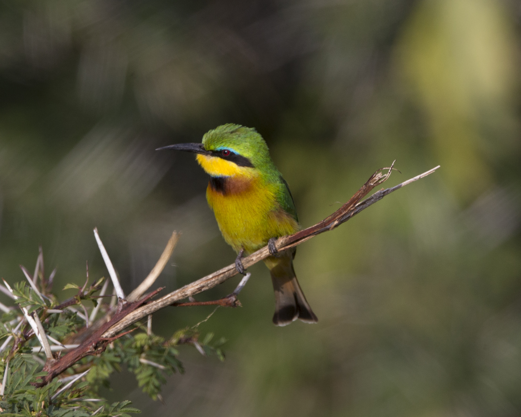 Little Bee-eater Merops pusillus Merops pusillus meridionalis CF2P9811